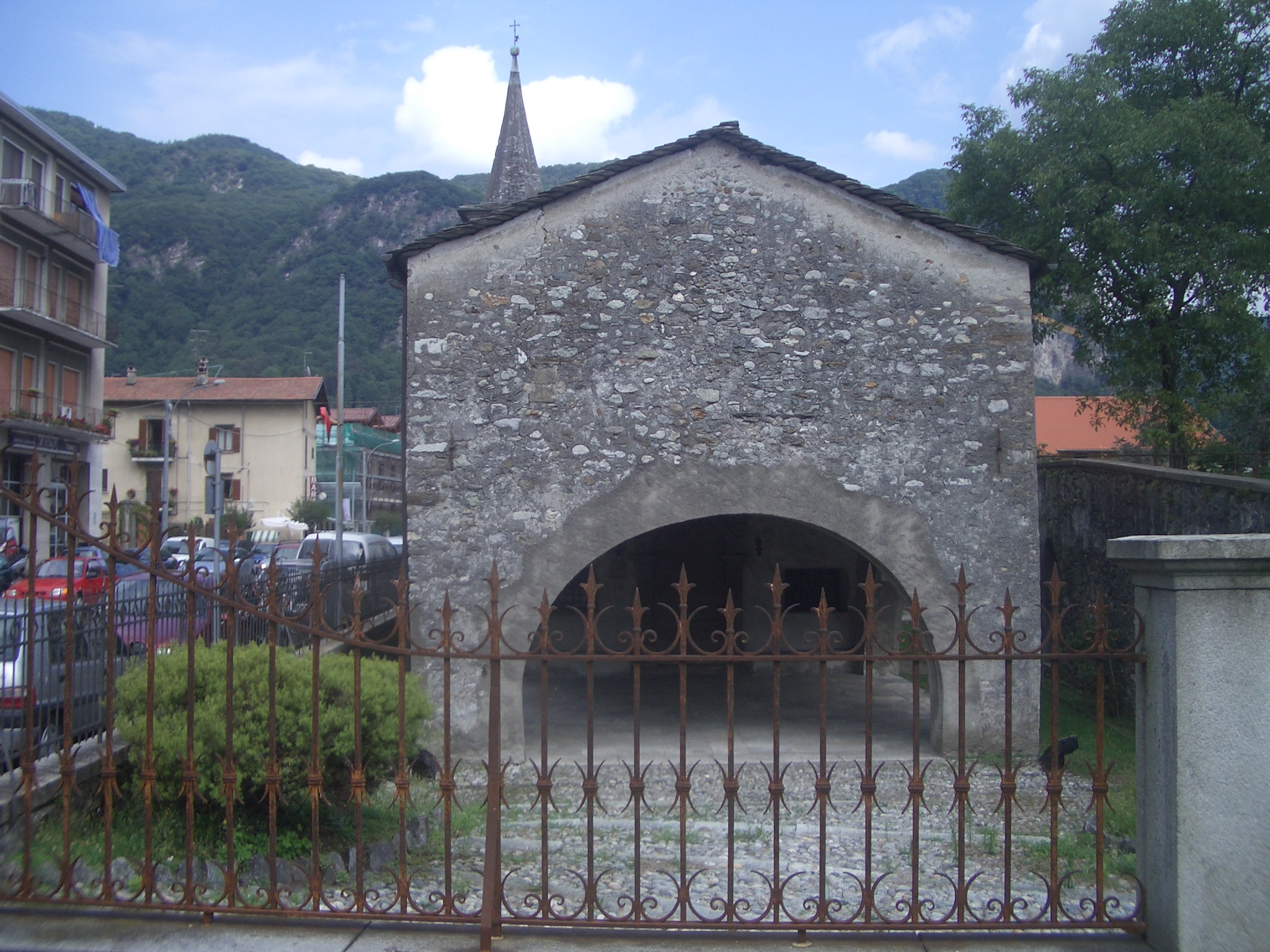 Varallo Sesia, St. Mark church (XIV century)